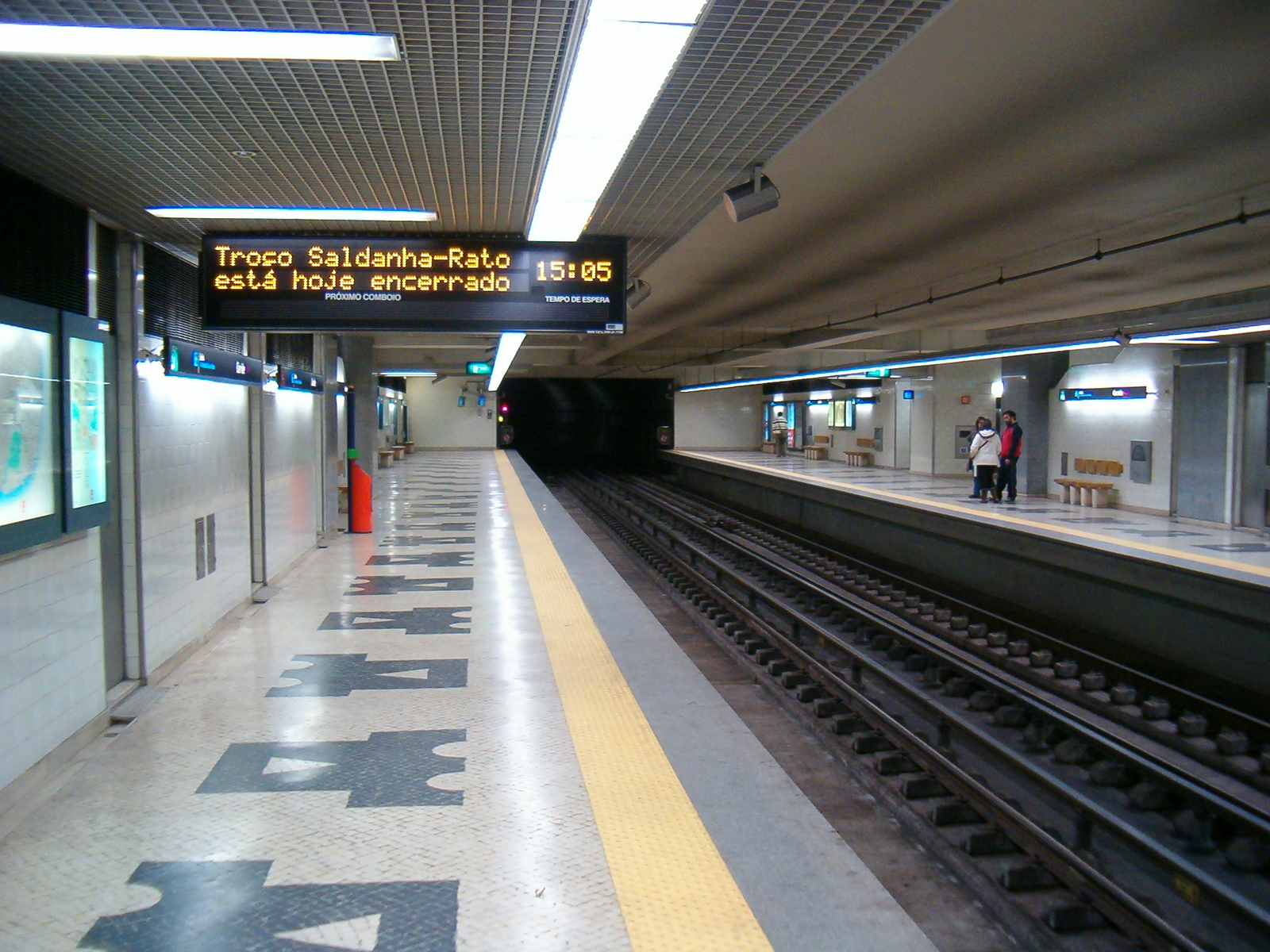 Metro Station Carnide in Lisbon Metro